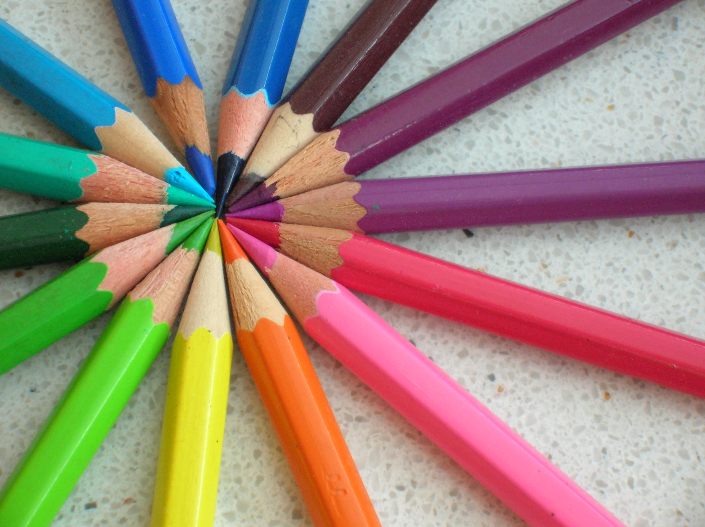 An assortment of colored pencils